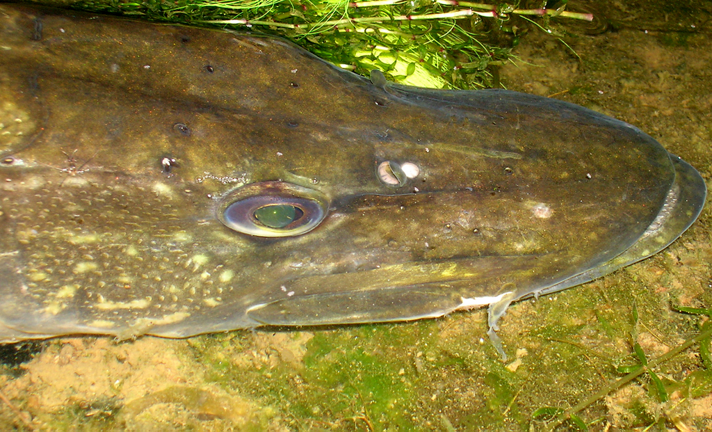 Head of Pike, Lens of eye clearly visible, also the small holes (neuromasts) that are part of the lateral line system, used to locate prey.